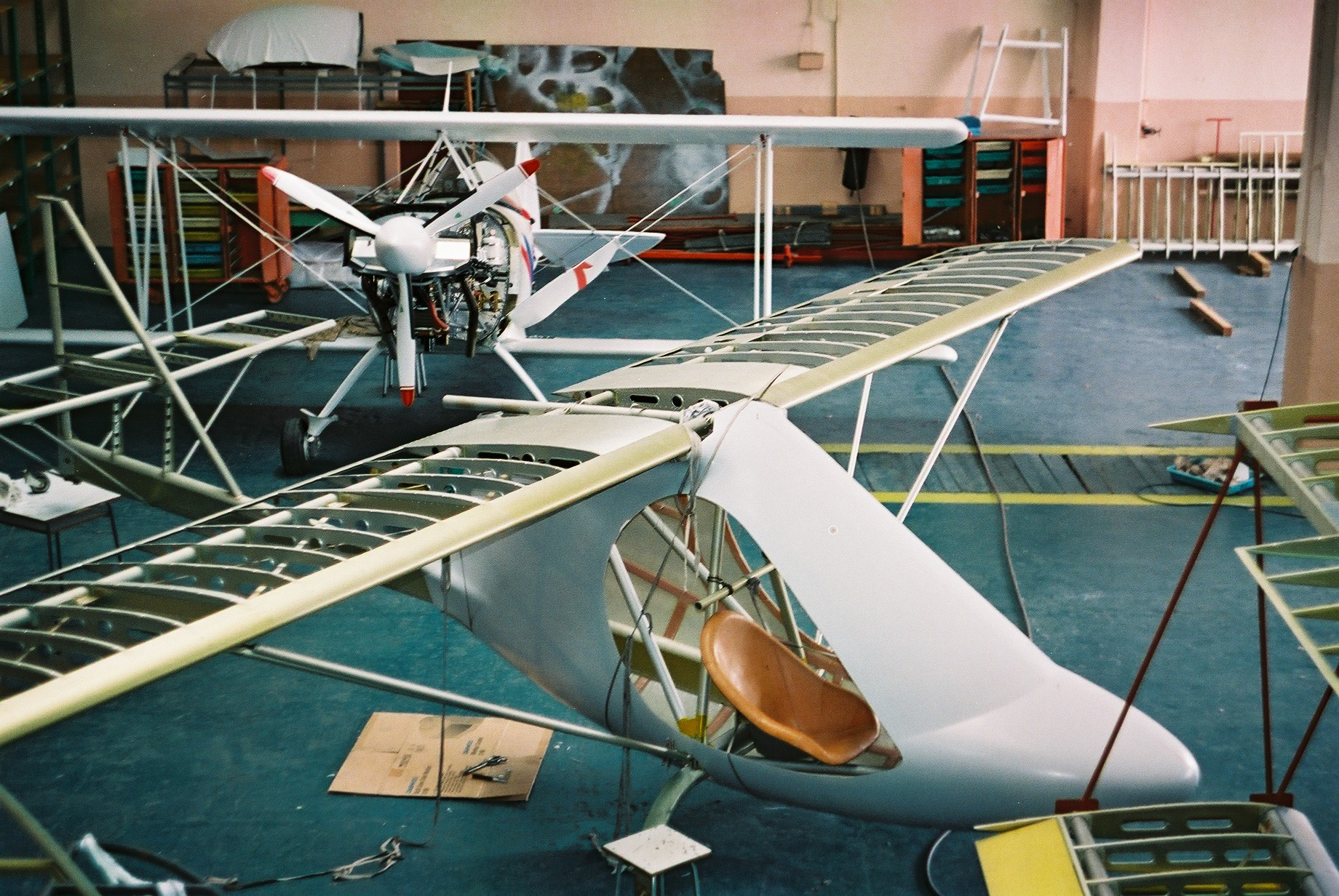 DEKO-6 Whisper under construction in WZL nr 3 Deblin.